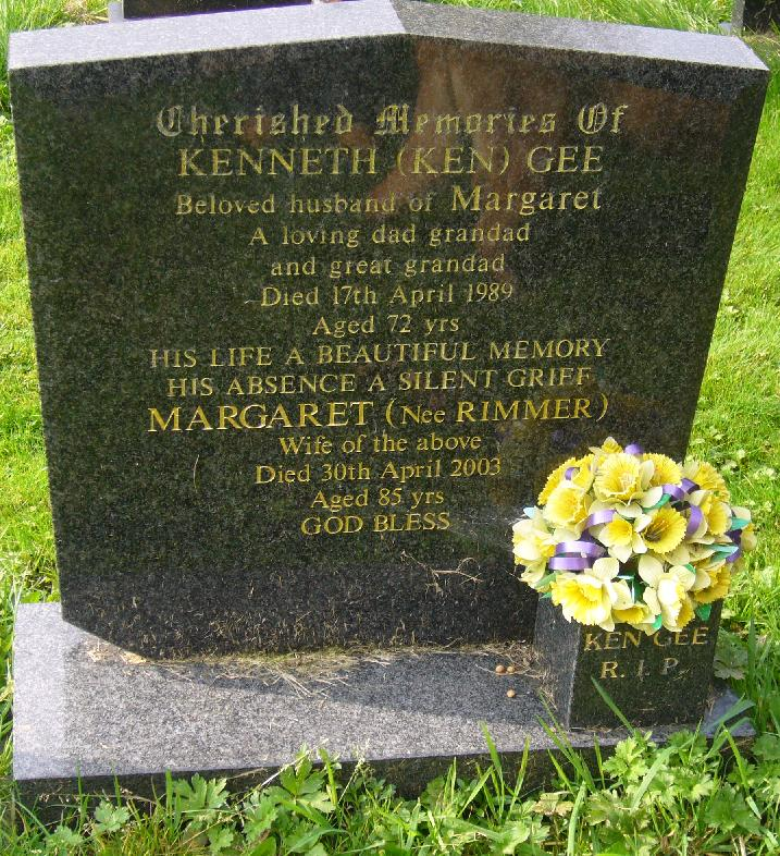 Ken Gee Wigan Rugby Player Grave